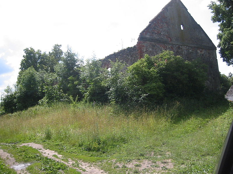 The former church in Vesnovo (Kussen) in 2008